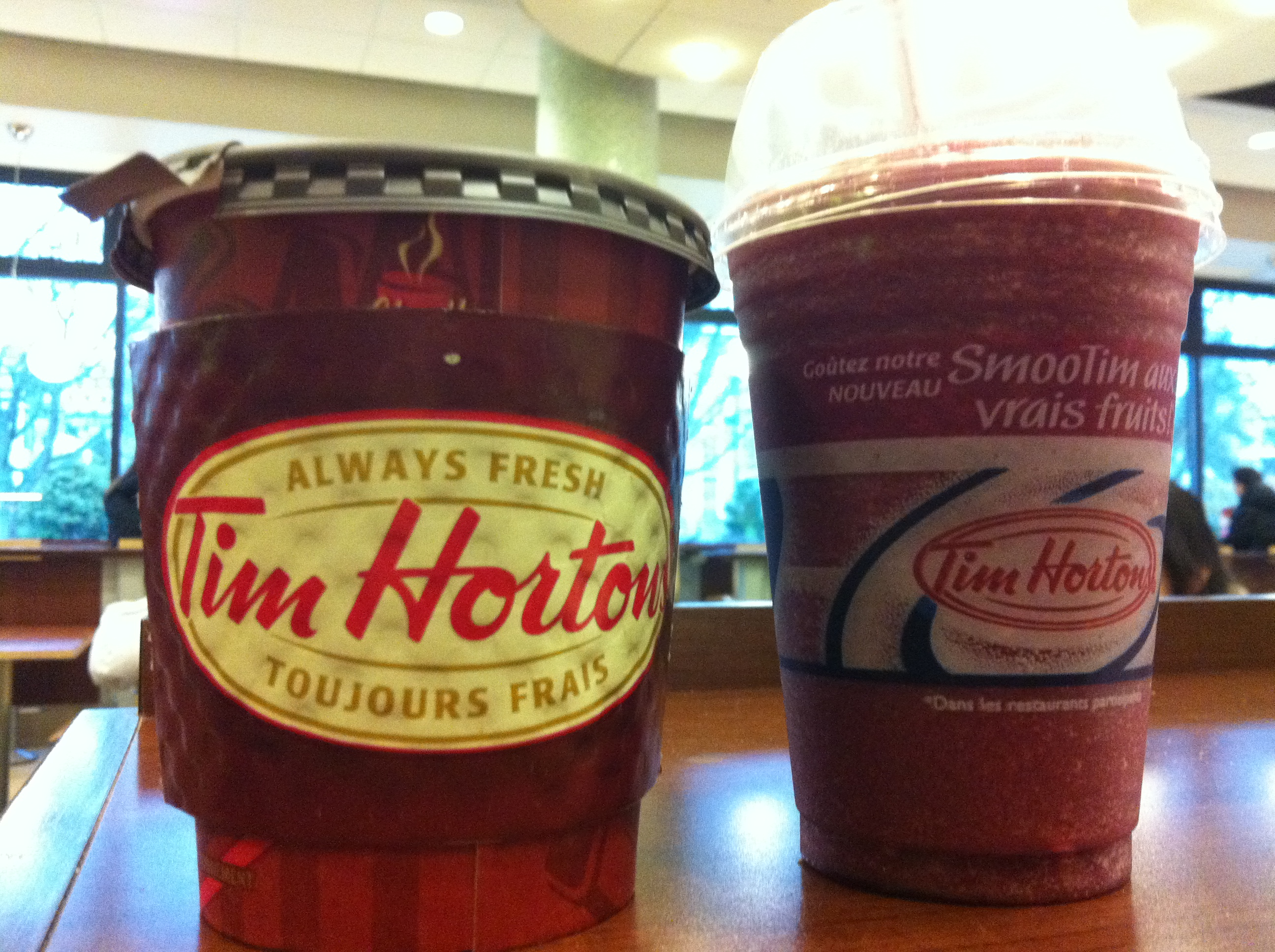 Coffee is great on those days